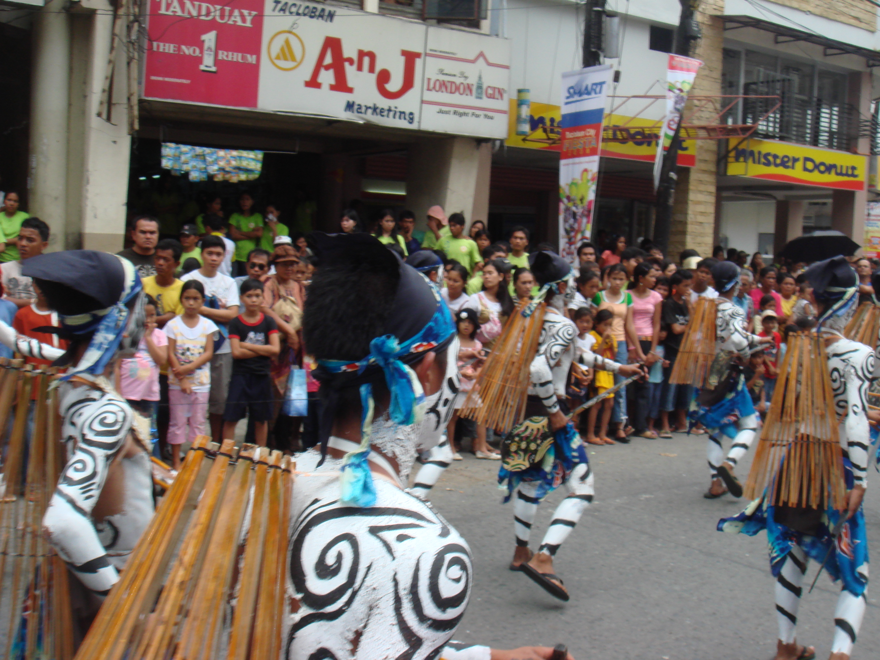 Taklub